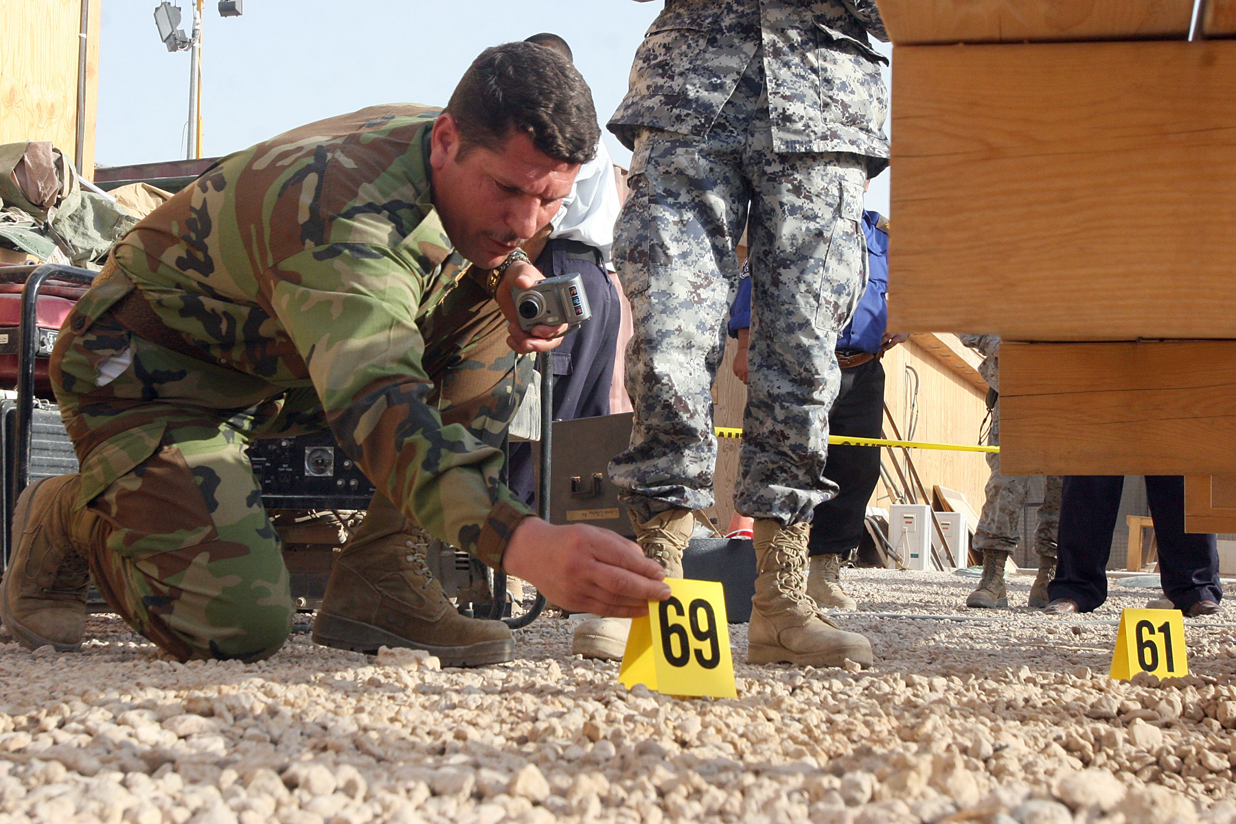 AL ASAD AIR BASE, Iraq, – An Iraqi police officer in the Basic Criminal Investigation Course here lays down numbered tabs on a fake crime scene to mark evidence during the class’ final exercise. Leading up to the final exercise, the students learned about democratic policing and ethics, both of which focus on teaching officers they are committed to serving the public, and they have moral responsibilities to the community. Official Marine Corps Photo By Cpl. Ryan C. Heiser.